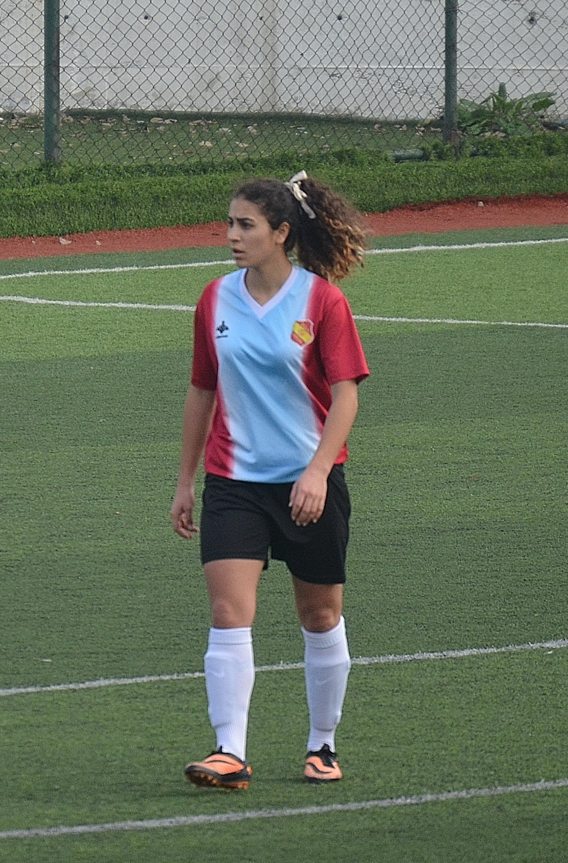 Esra Solmaz playing for Trabzon İdmanocağı (women) in the away match aganst Ataşehir Belediyespor in the 2014-15 season